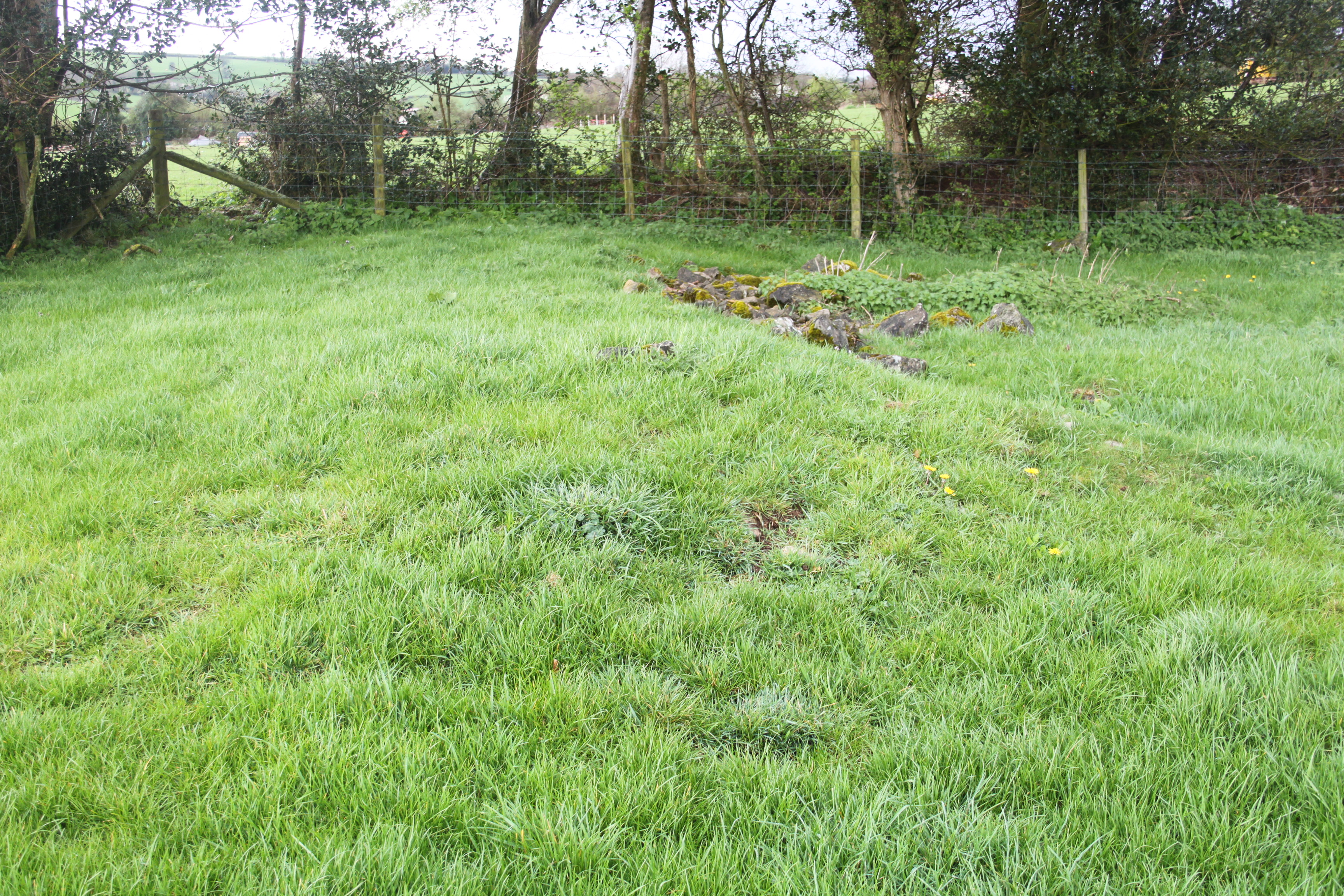 Fairy Toot Barrow, Nempnett Thrubwell, Somerset